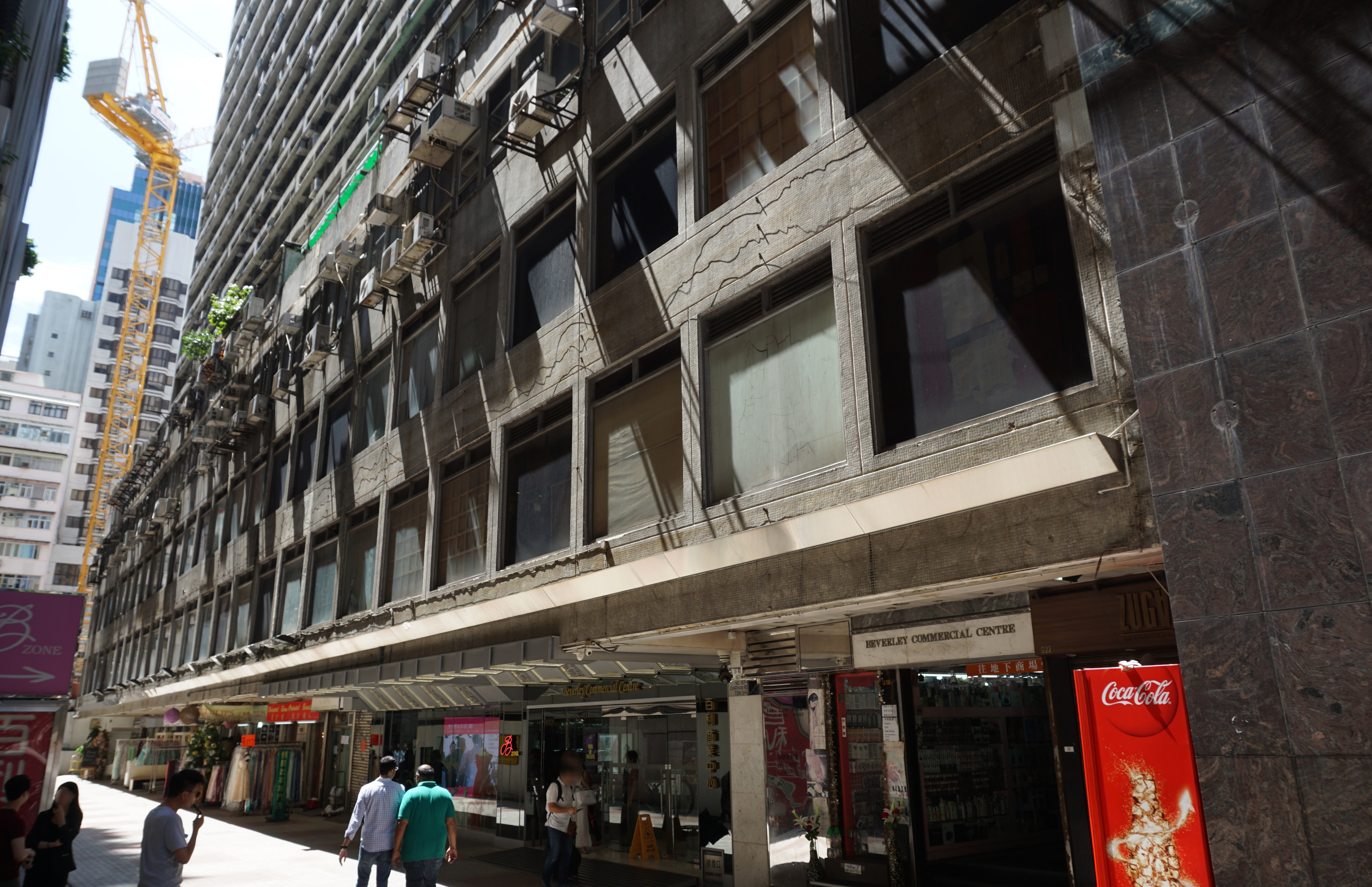 Beverley Shopping Arcade in Tsim Sha Tsui, Hong Kong.